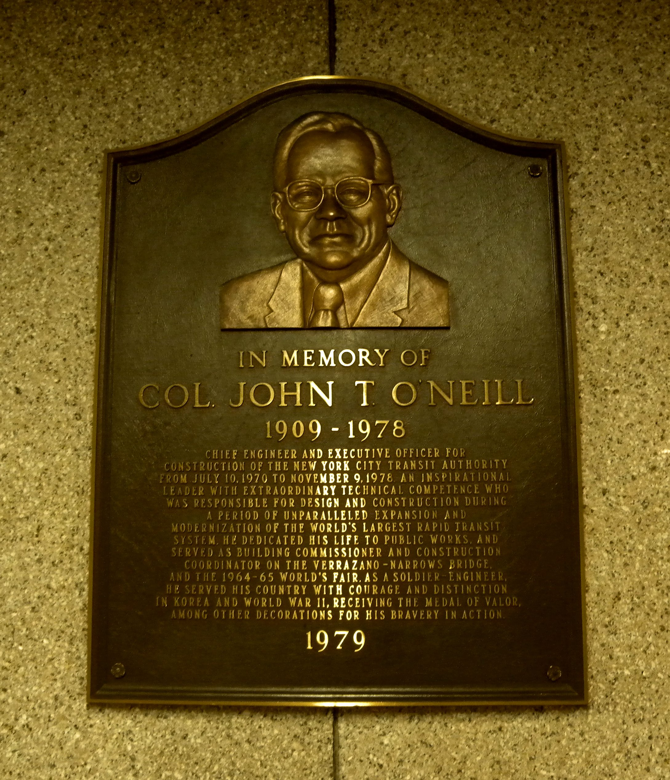 Looking west at plaque in northern mezannine, south of SW corner stair, of en:57th Street (IND Sixth Avenue Line).